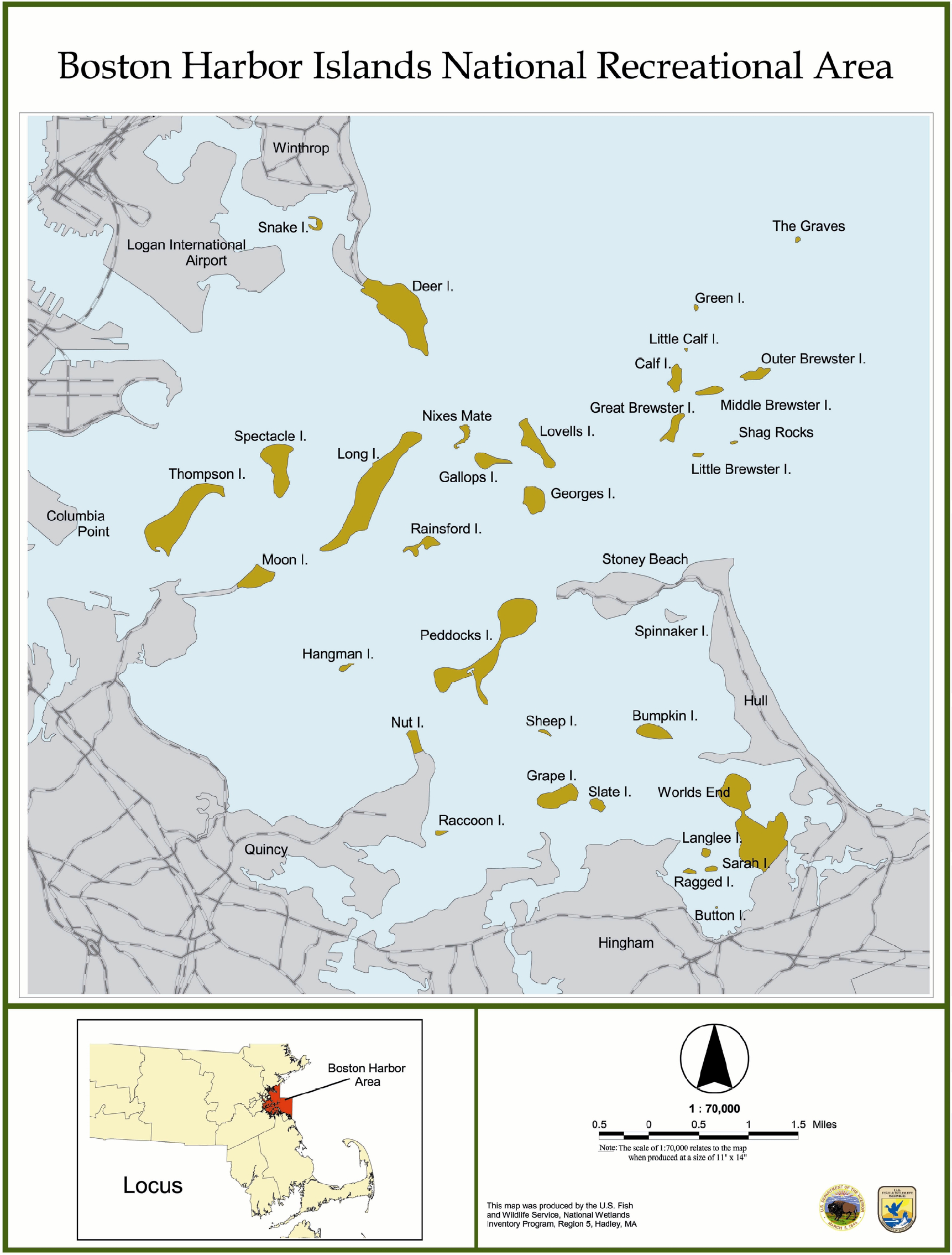 Map of the Boston Harbor Islands National Recreation Area, Boston, Massachusetts, USA. This image was produced by the United States Fish and Wildlife Service. As a product of the US Government, it is in the public domain and not protected by copyright restrictions. This image was current as of November 2005.